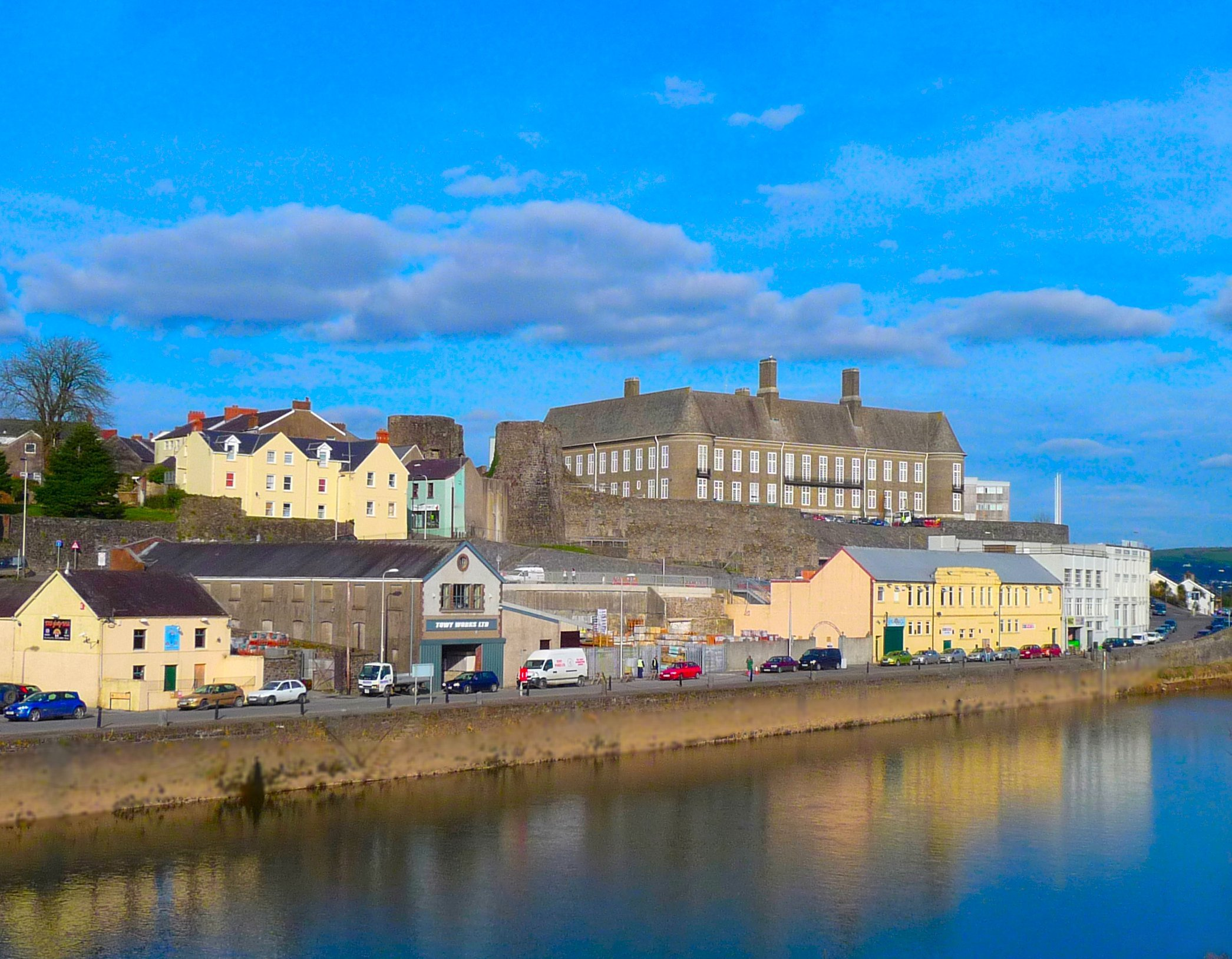 FEB 09